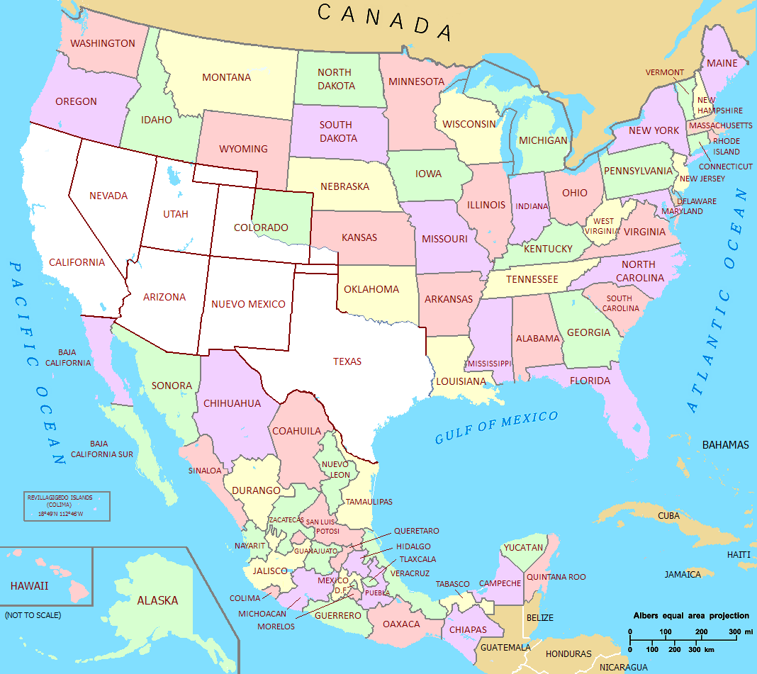 Mexico's Lost Territories